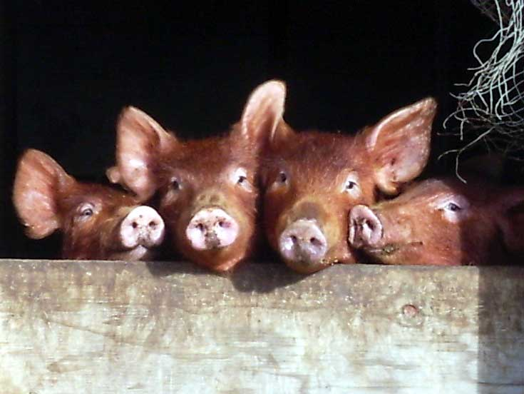 This photo was taken by myself, and is released into the public domain.